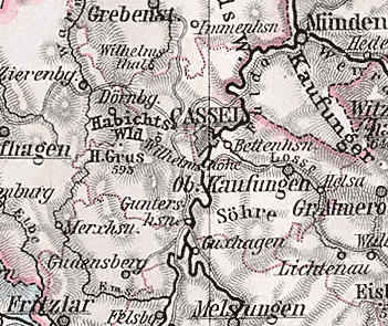 Detail from a map of Hesse.